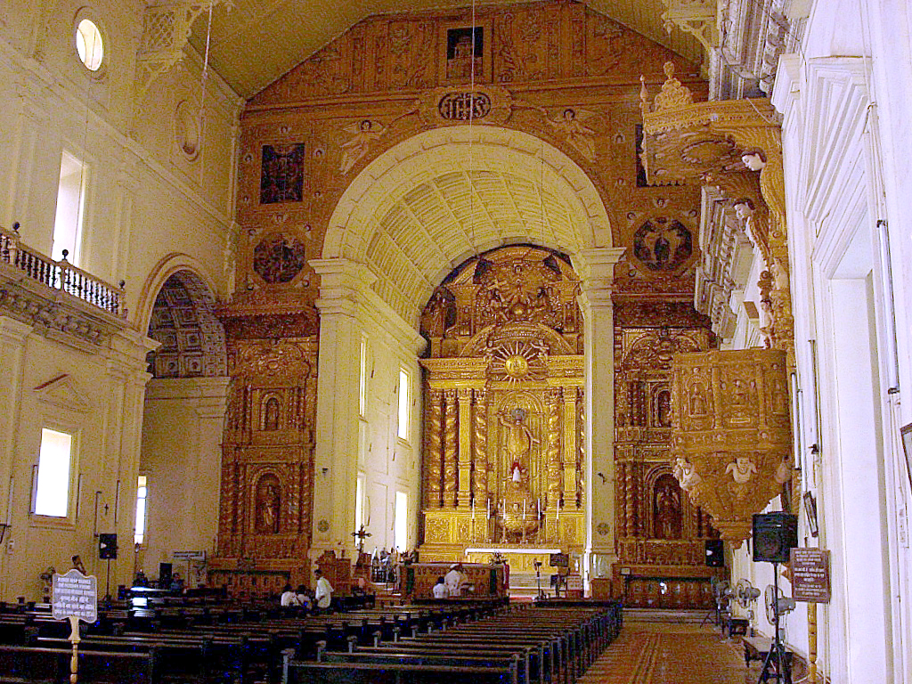 Nave of Bom Jesus Basilica, Goa, India